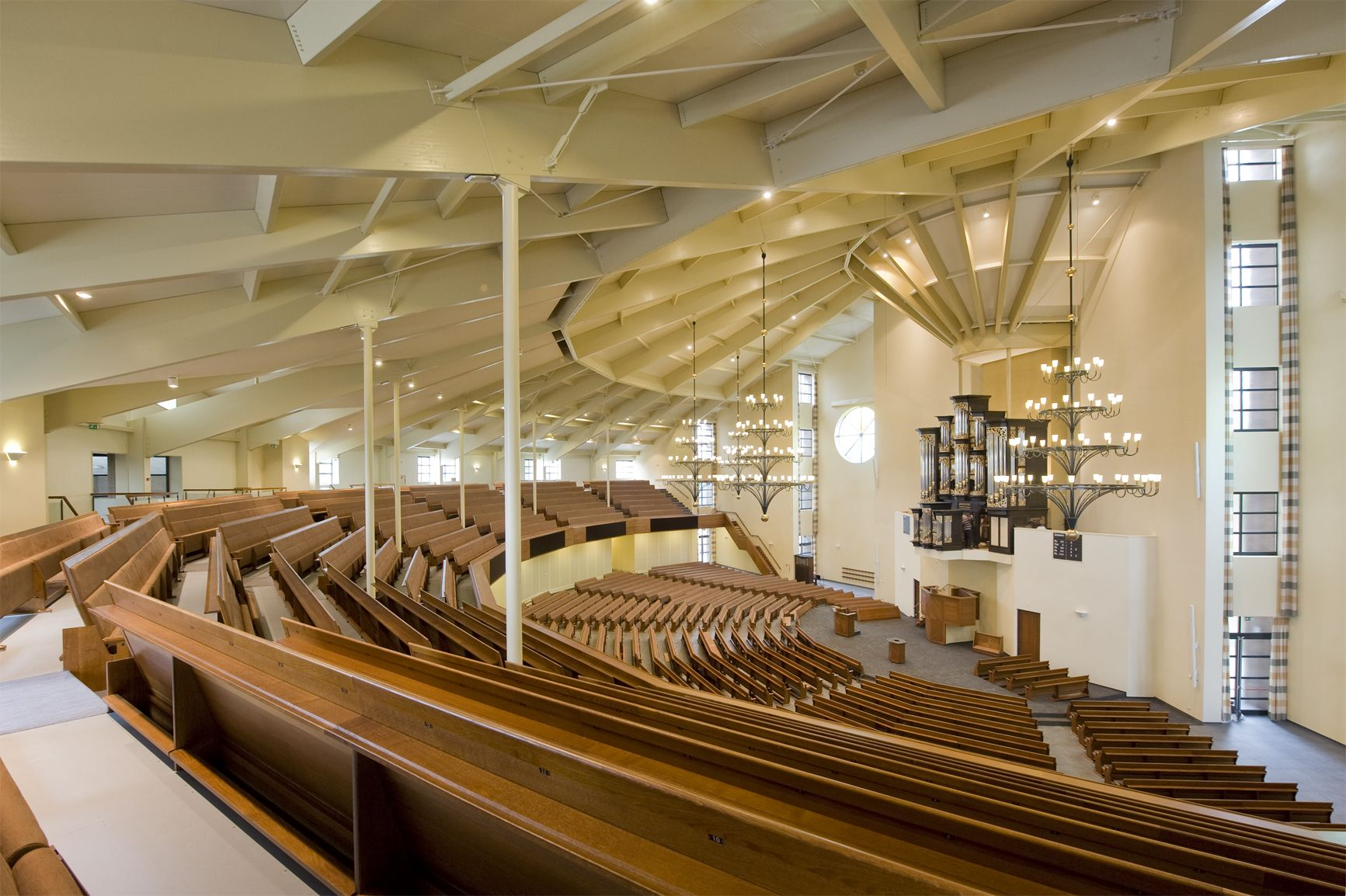 Kerkzaal gereformeerde gemeente in nederland te barneveld